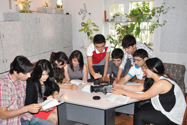 Media Center